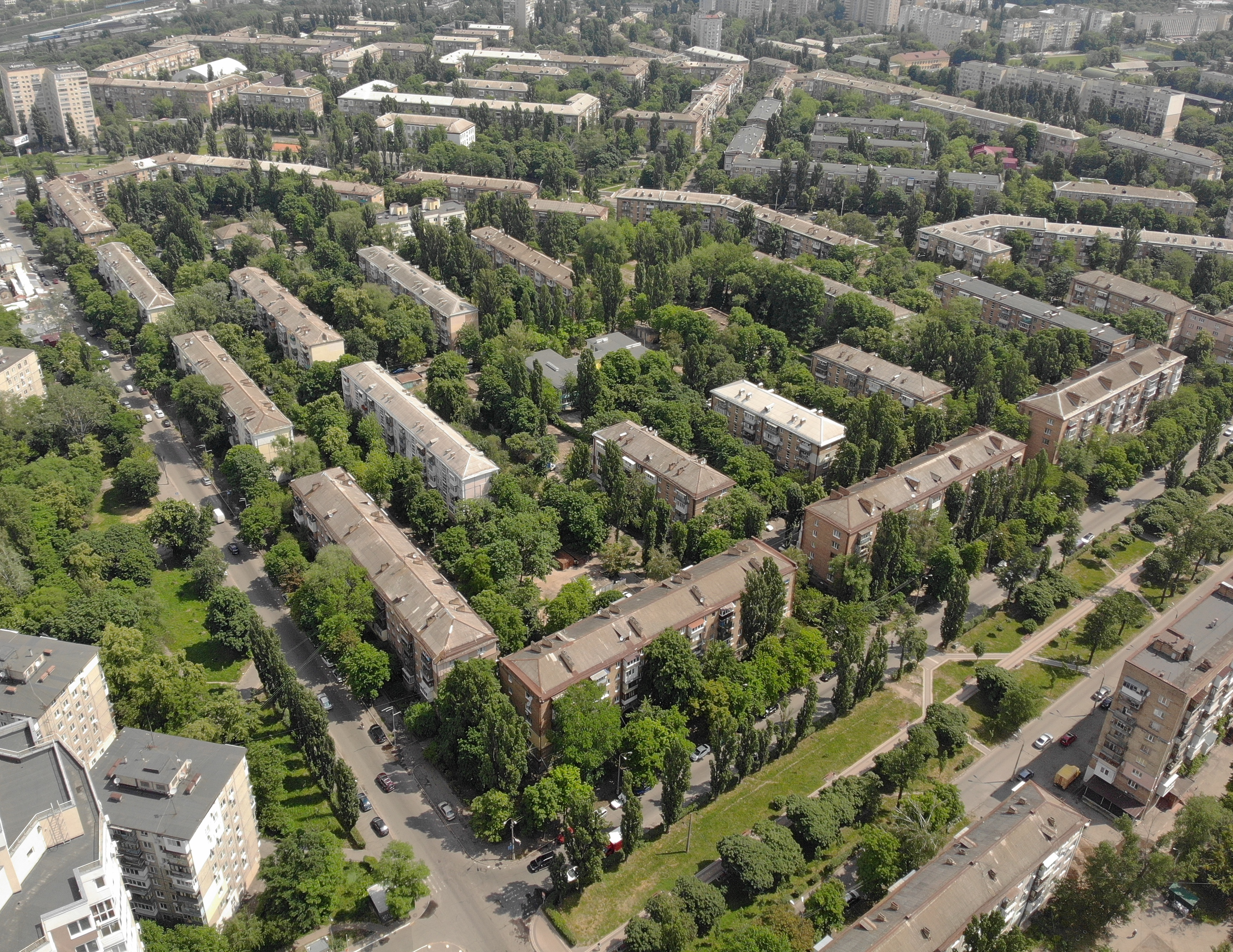 Житловий масив 1955-1960-х рр. побудови на Чоколівці